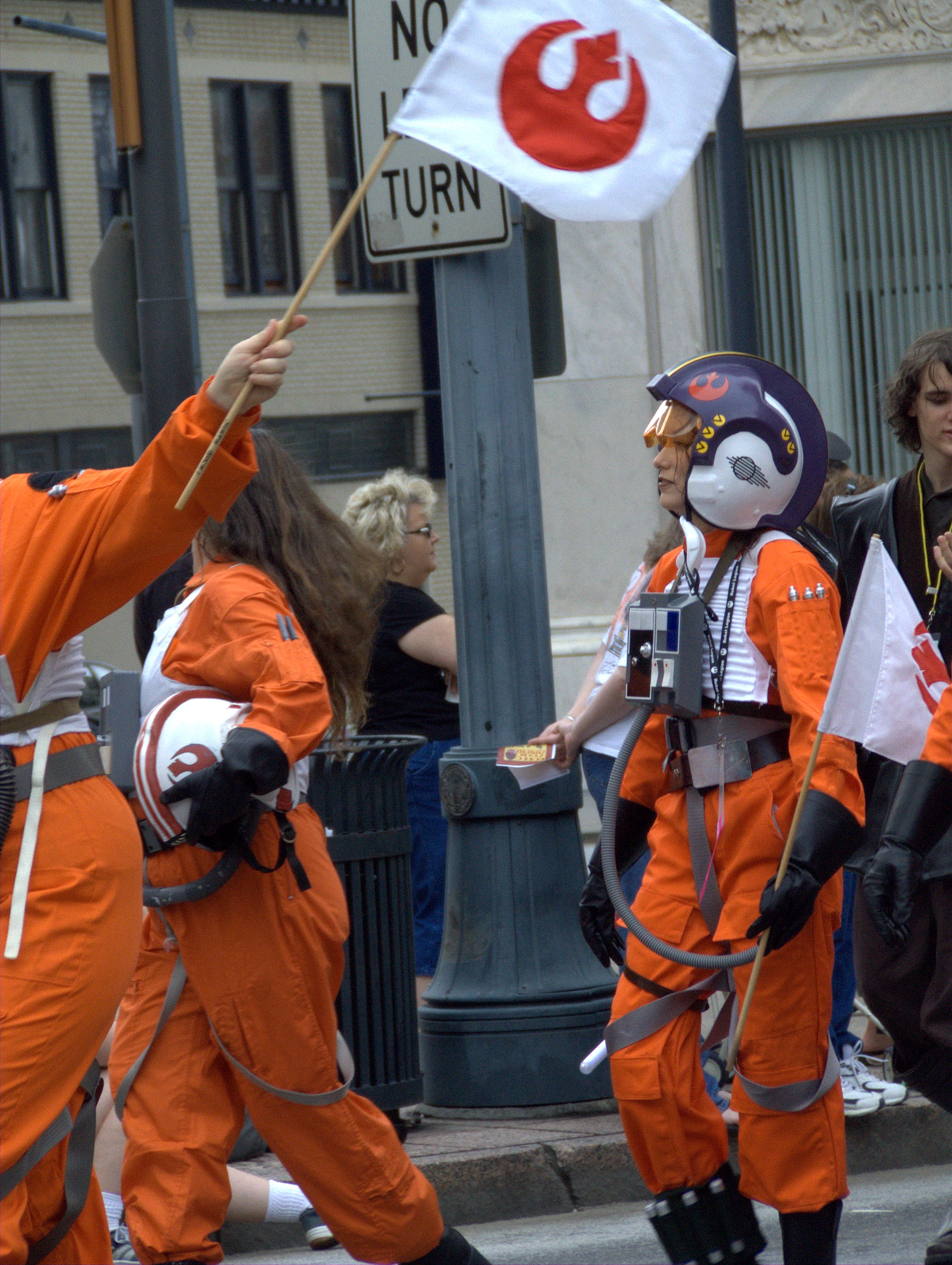 Soldiers of the Rebel Alliance (Star Wars, the parade at DragonCon 2006).